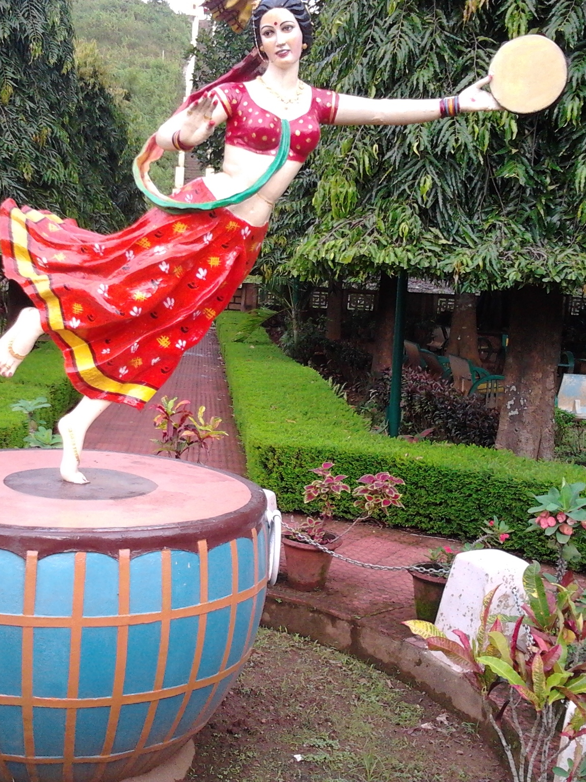 dam scenes